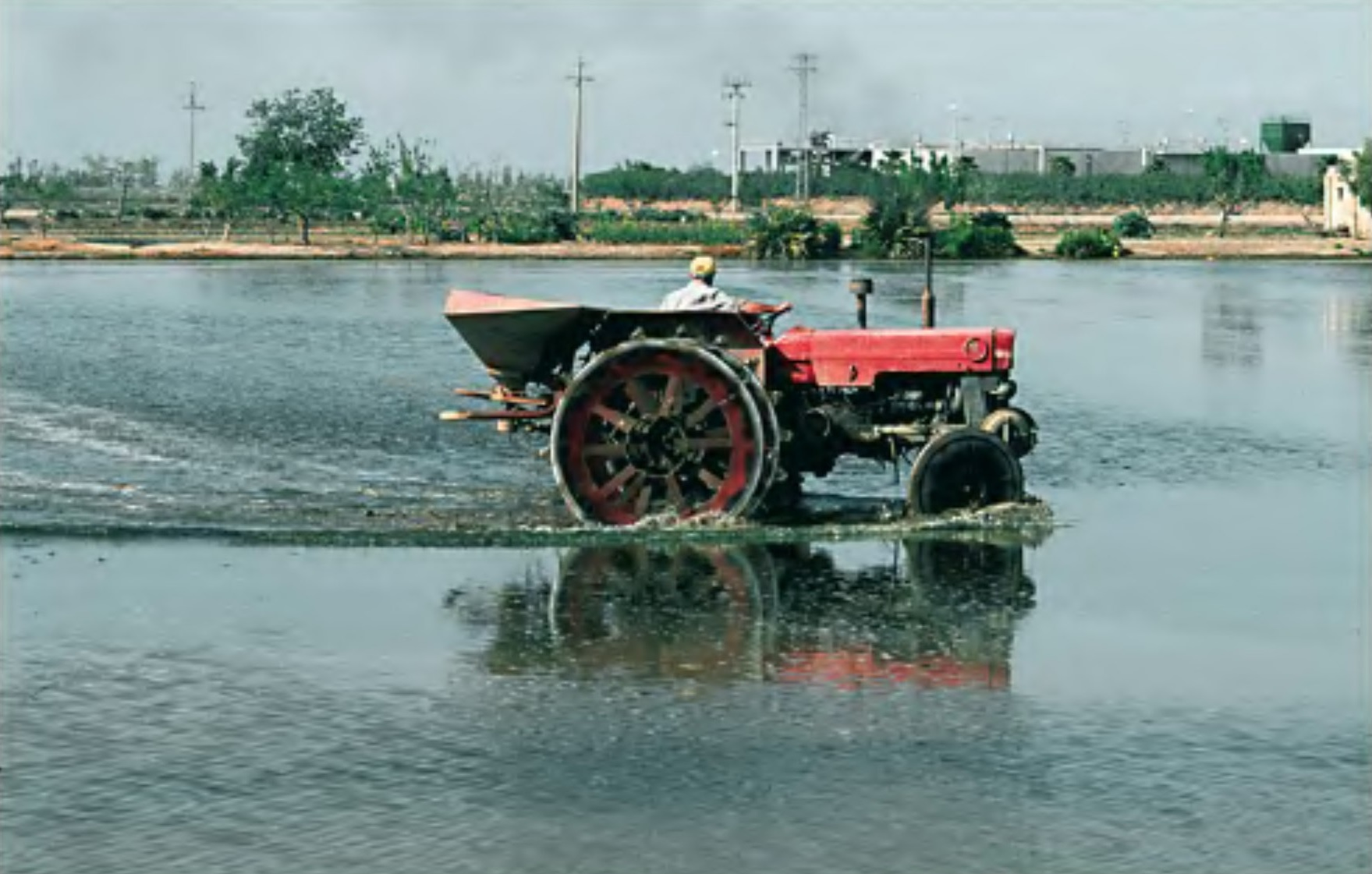 Tractor planting rice seeds, in Sant Carles de la Ràpita (Montsià), 24 April 2001.